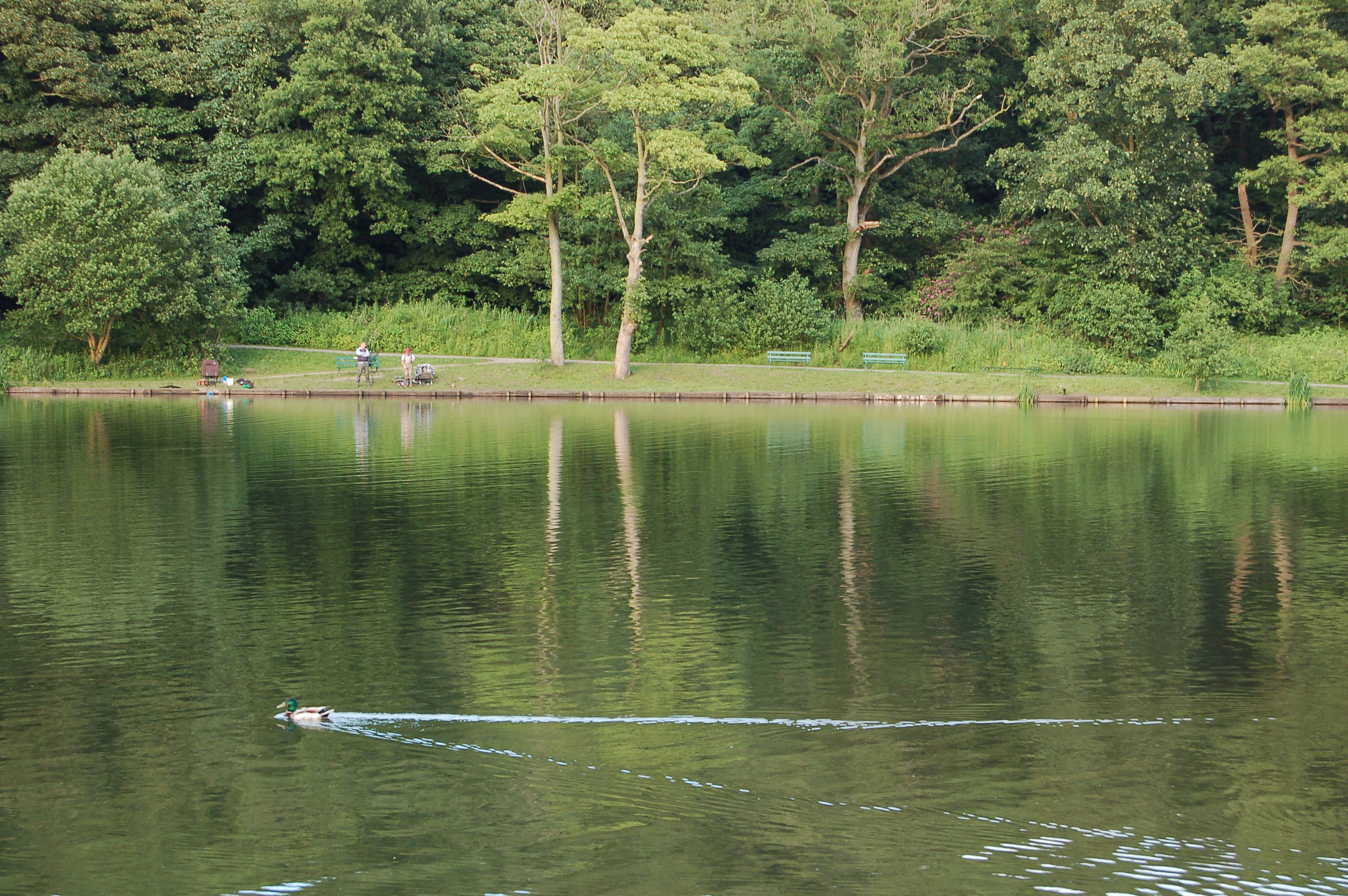 self made and released